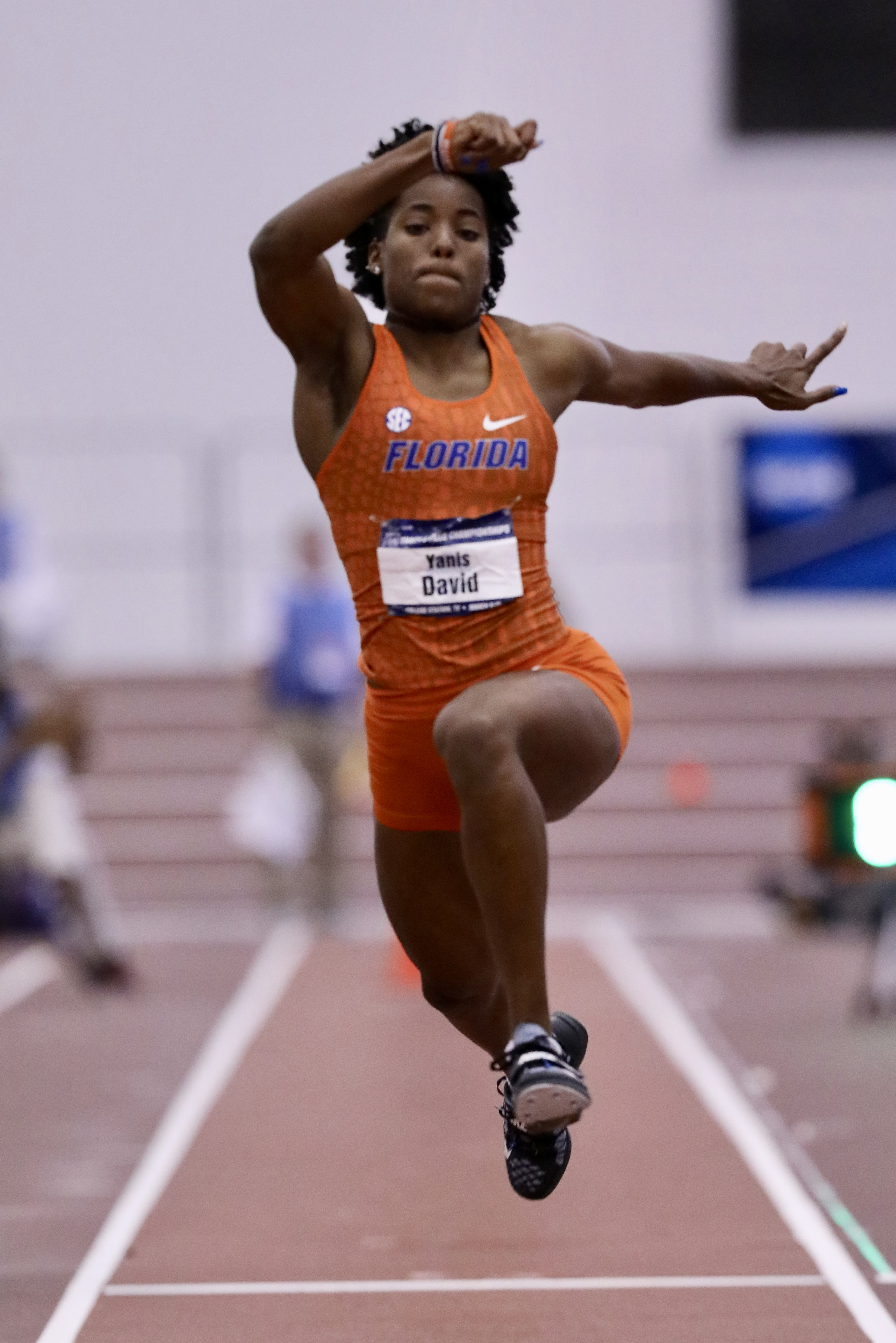 Yanis Esmerelda David is a French athlete, born on 12 December 1997.[1] Yanis is a specialist in the women's triple jump